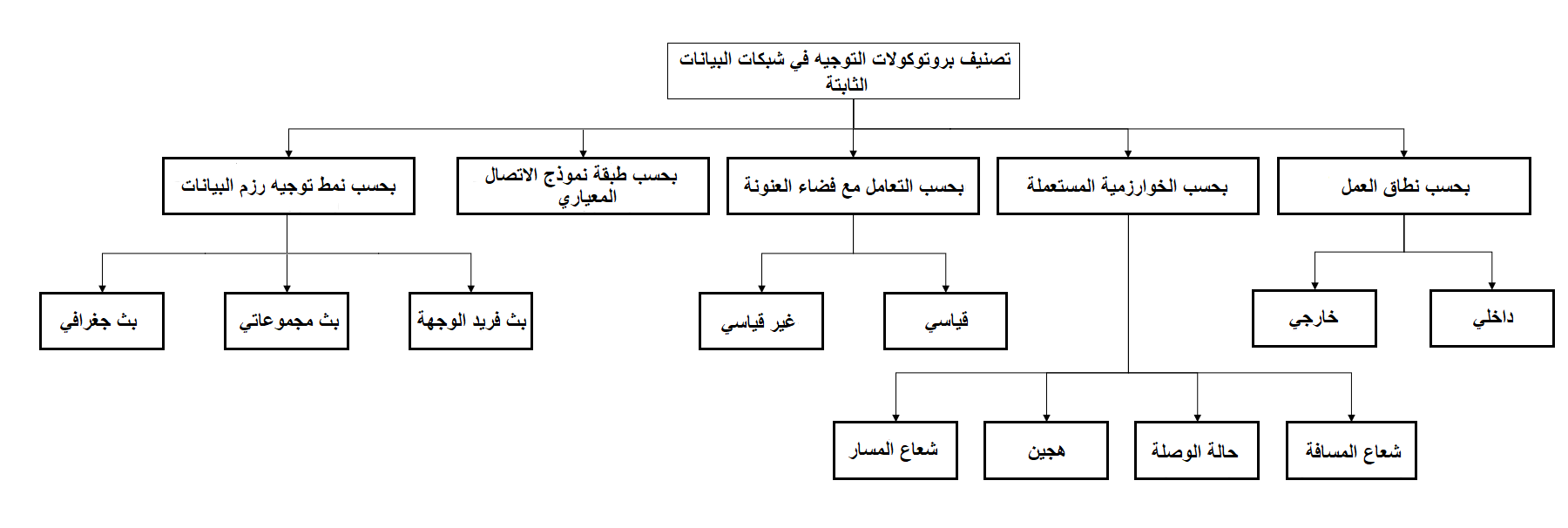 Routing protocol classification computer networks.